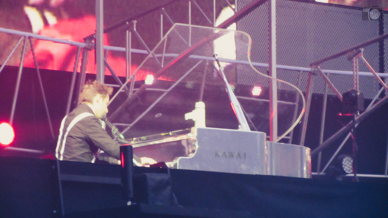 Muse 2013 Stadium Tour, London, Emirates Stadium 26th May, Matt Bellamy on Piano 2